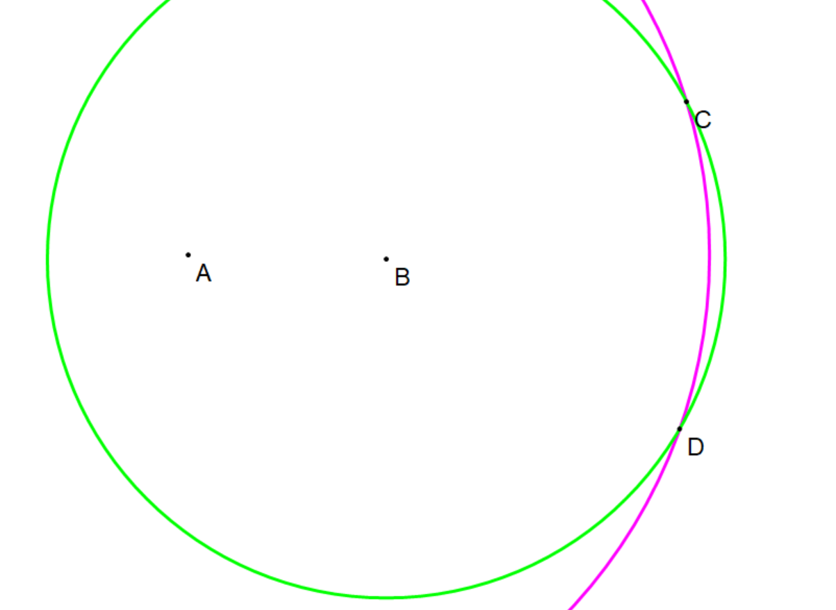 Mohr-Mascheroni construction. Euclidean construction, compass-only. Depicts the reflection (D) of a point (C) across a line (AB). A point symmetry.